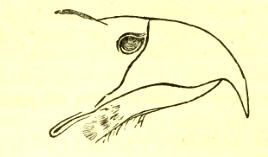 Beak of Haliastur indus